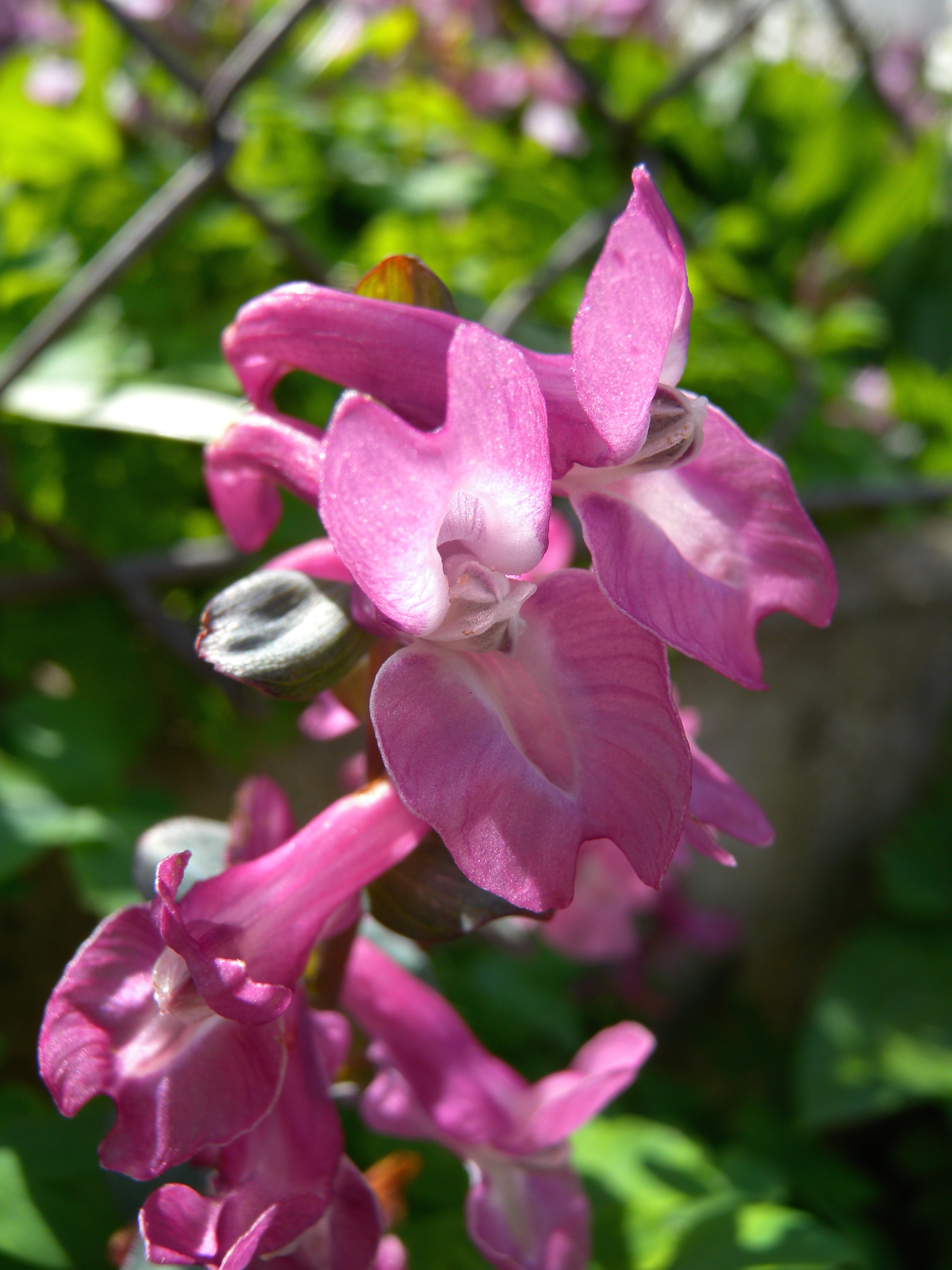 Flowers of Corydalis cava (Papaveraceae); Alte Aare near Aarberg, Canton of Bern, Switzerland